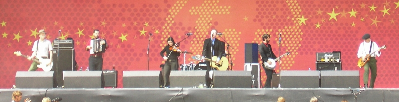 Flogging Molly performing live at the Rock Werchter 2005 festival.